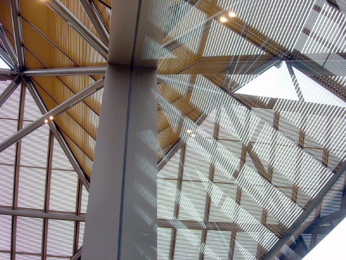 the interior view of main building of Miho museum 美秀美術館 in Japan. designed by I.M.Pei. 貝聿銘